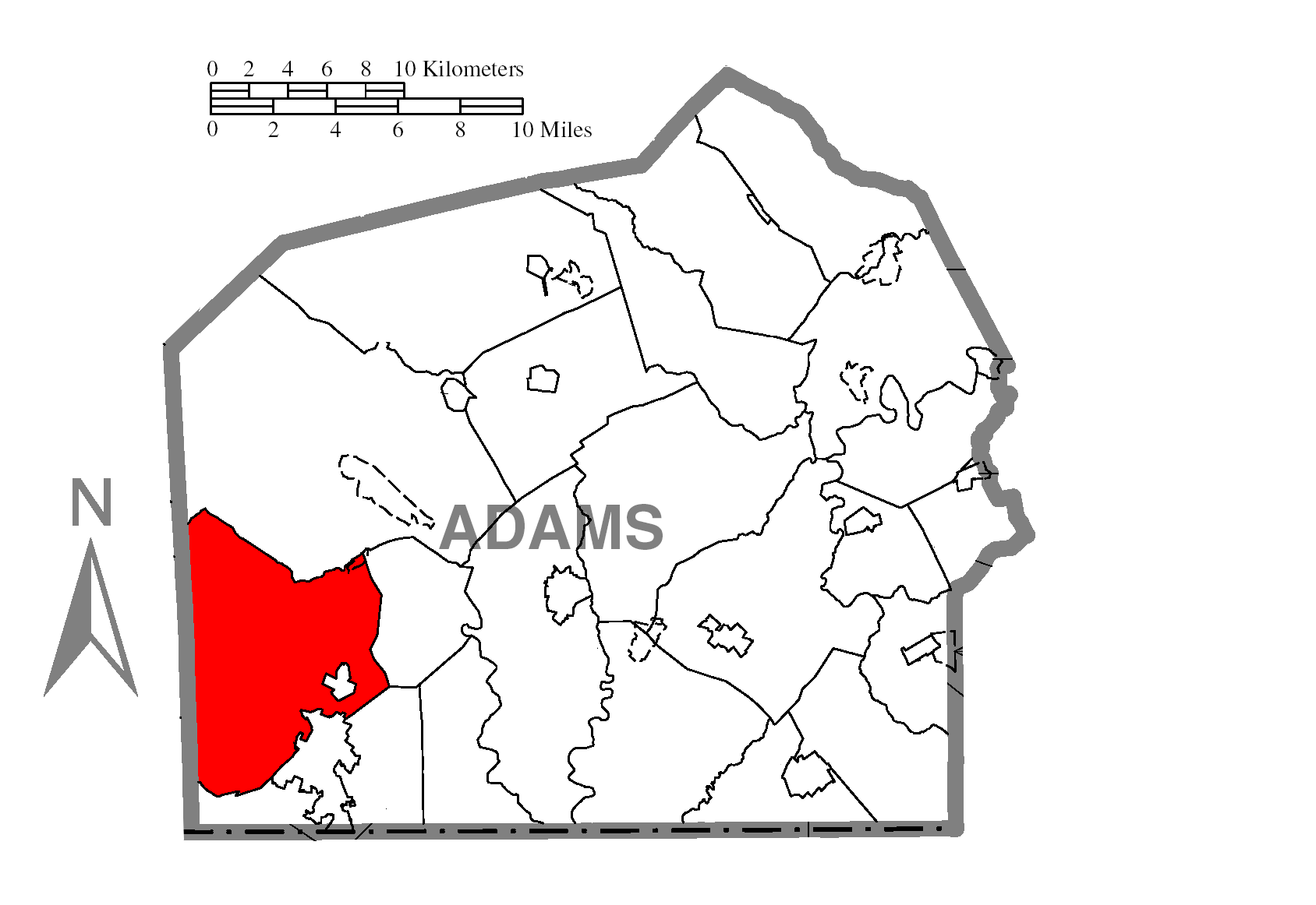 A map of Adams County showing Hamiltonban Township, Pennsylvania (alternate) highlighted on the map.